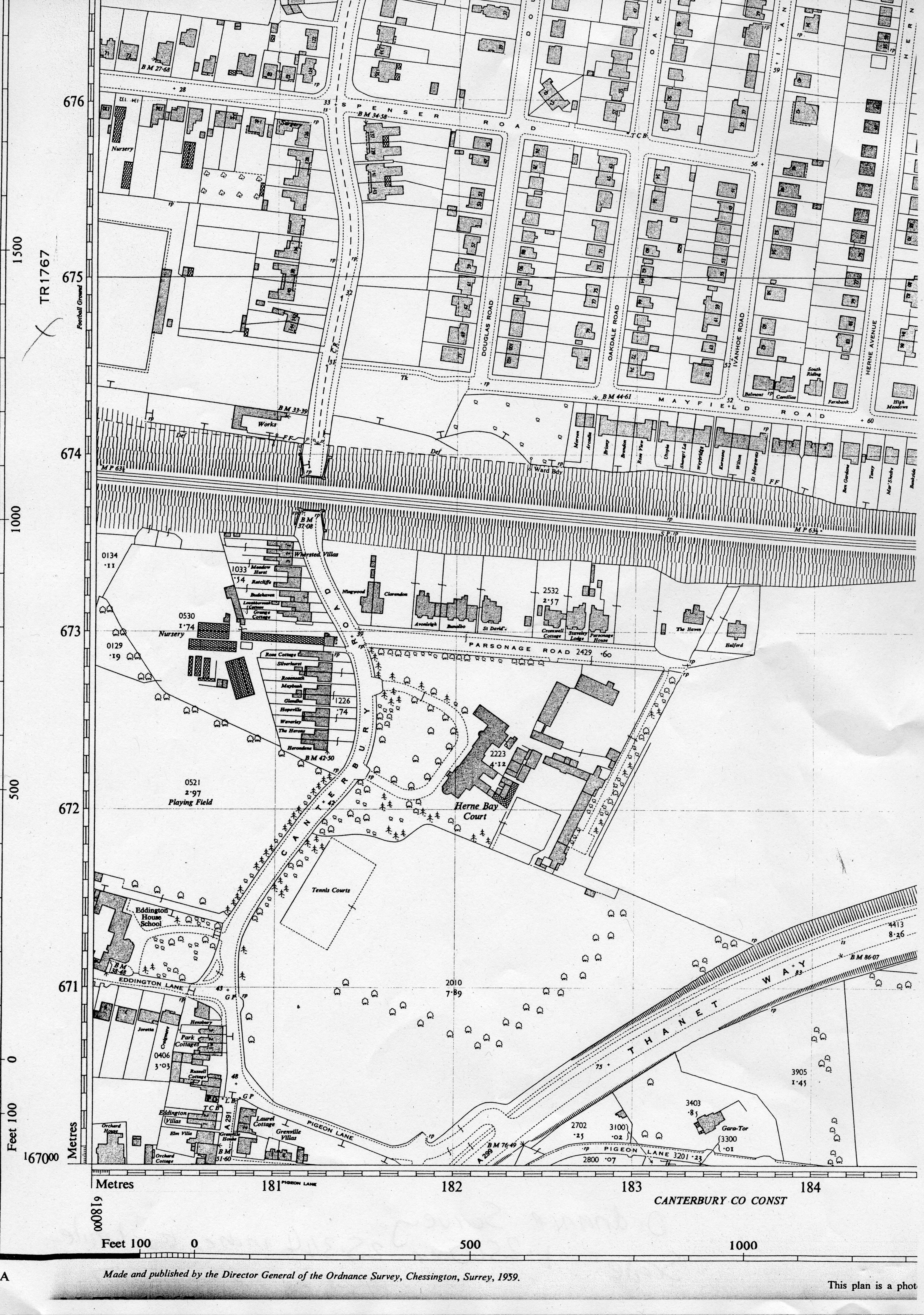 Part of 1959 OS map, scale 1:2500 or 25.344 inches to 1 mile (Plan TR1867) of Eddington in East Kent, England. Showing the centre of Eddington including Canterbury Road, and part of Eddington's northern edge along the railway line.